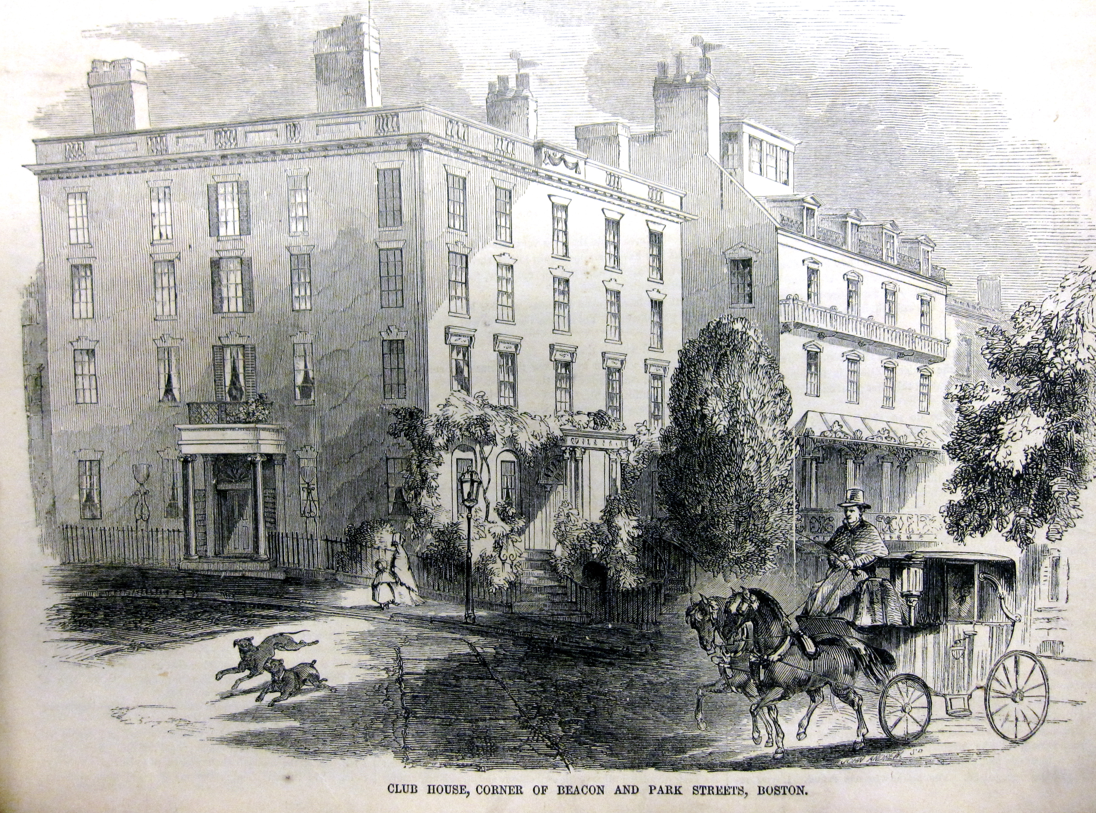 Park Street and Beacon Street, Boston, 1850s.